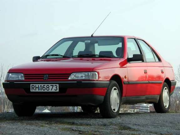 1994 Peugeot 405